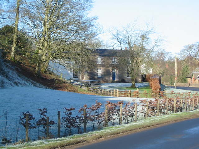 Priorslynn